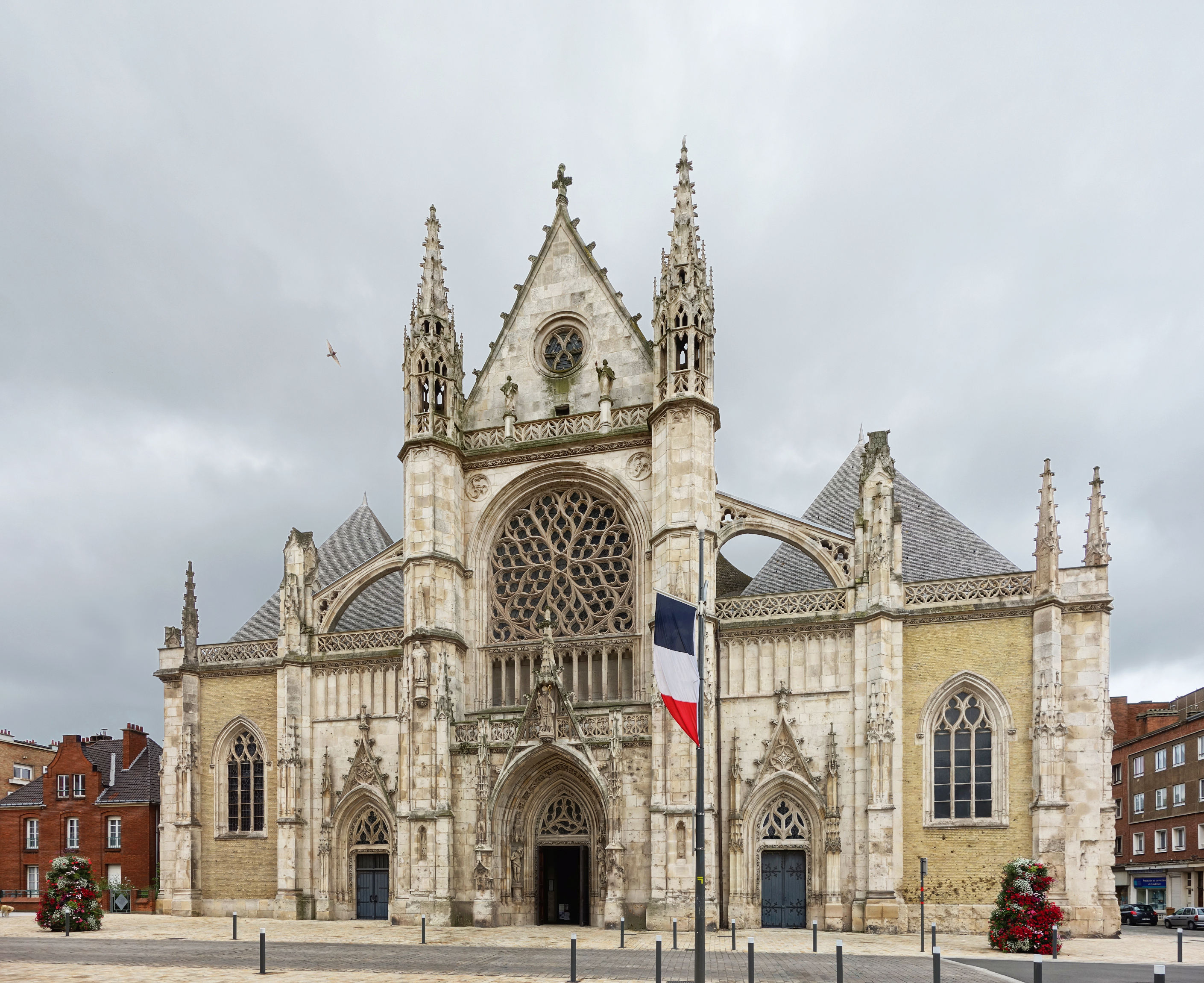 Facade of Saint-Éloi Church in Dunkerque